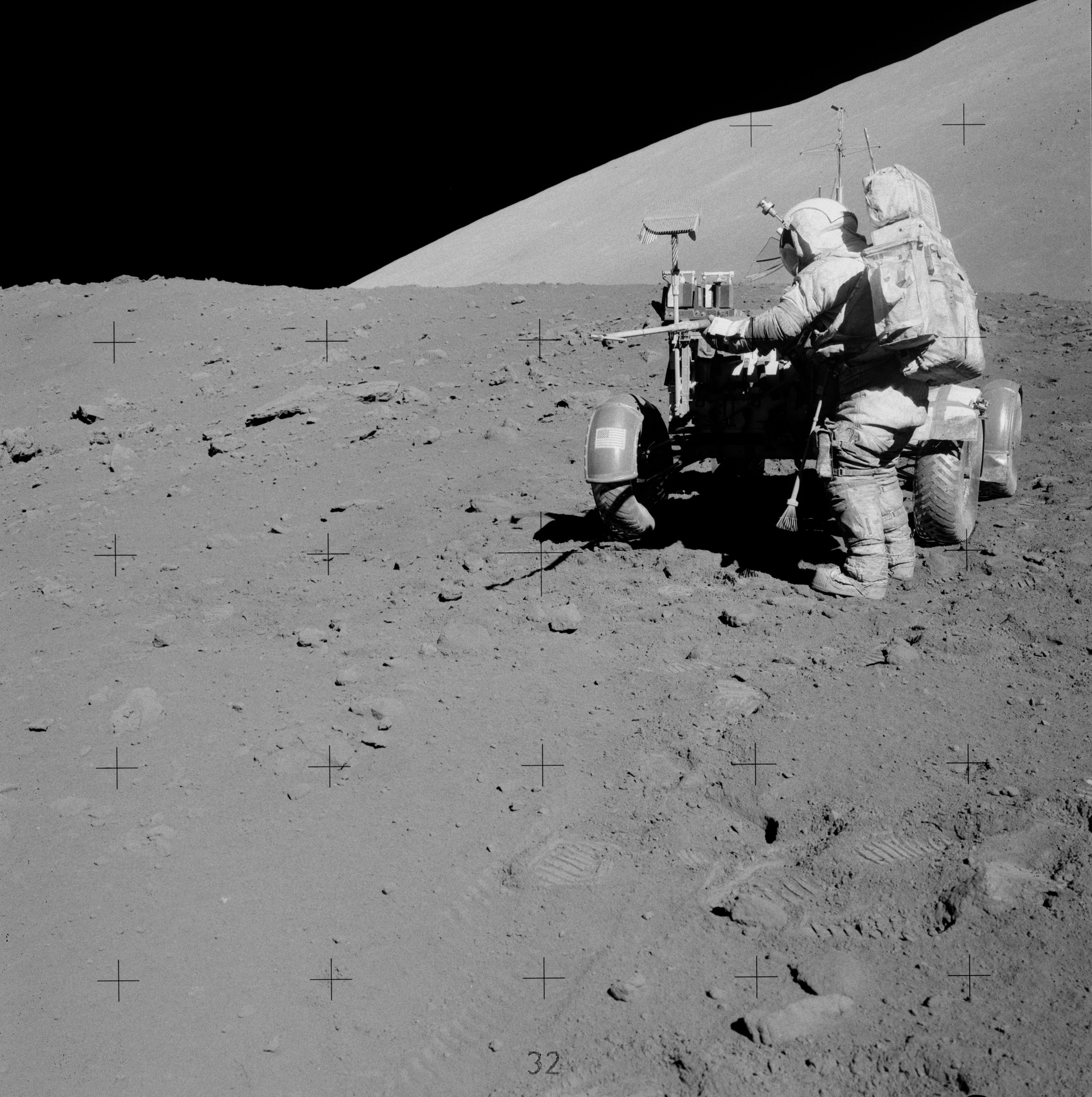 Apollo 17 near Van Serg crater : Cernan is at the back of the Rover with the core tube that he drove into the layer of light-colored soil he and Jack discovered near the Rover at Van Serg.